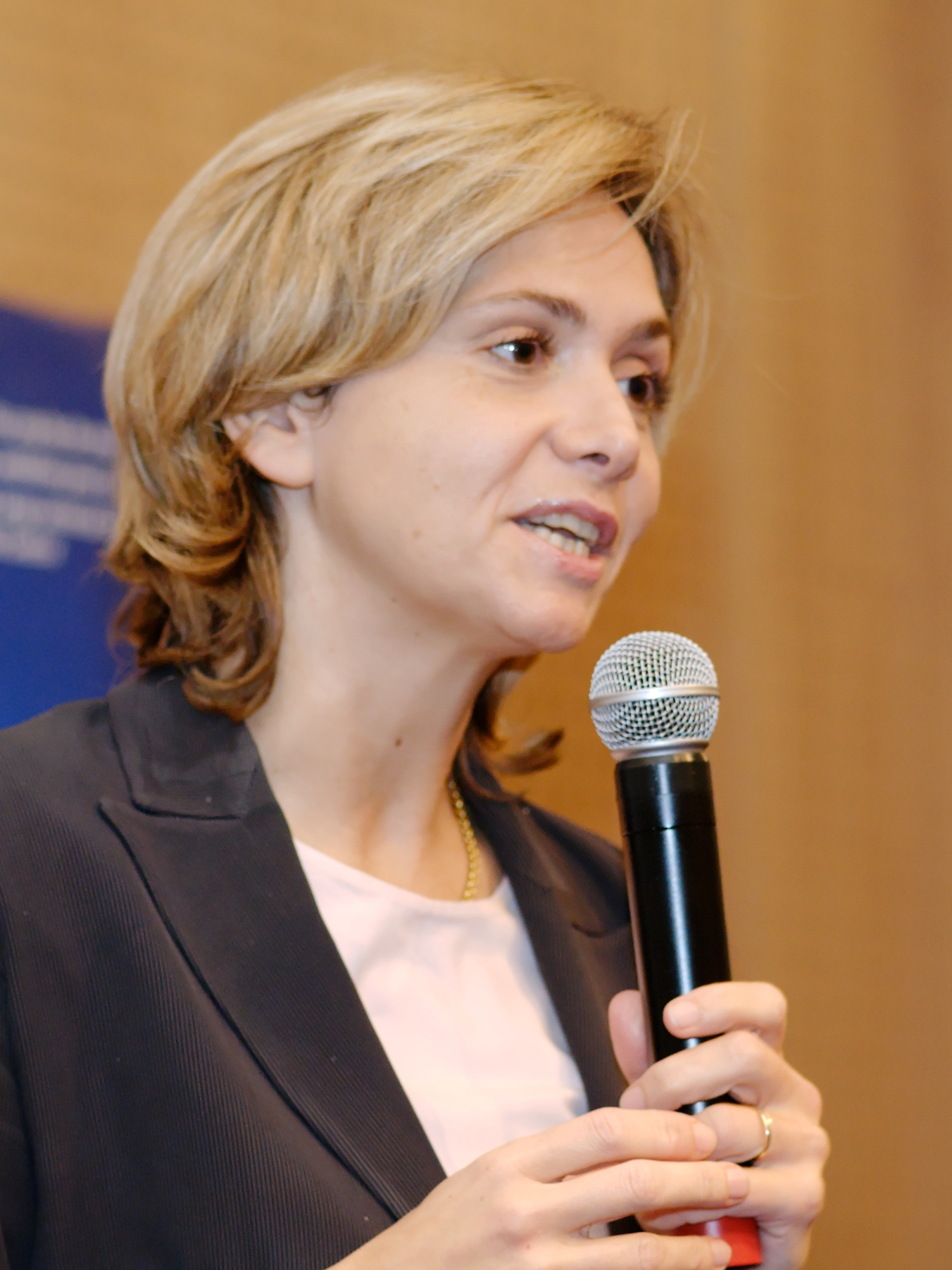 Valérie Pécresse at a political rally held at the Palais de la Mutualité (Paris) by Françoise de Panafieu and Jean Tiberi for the 2008 town elections.